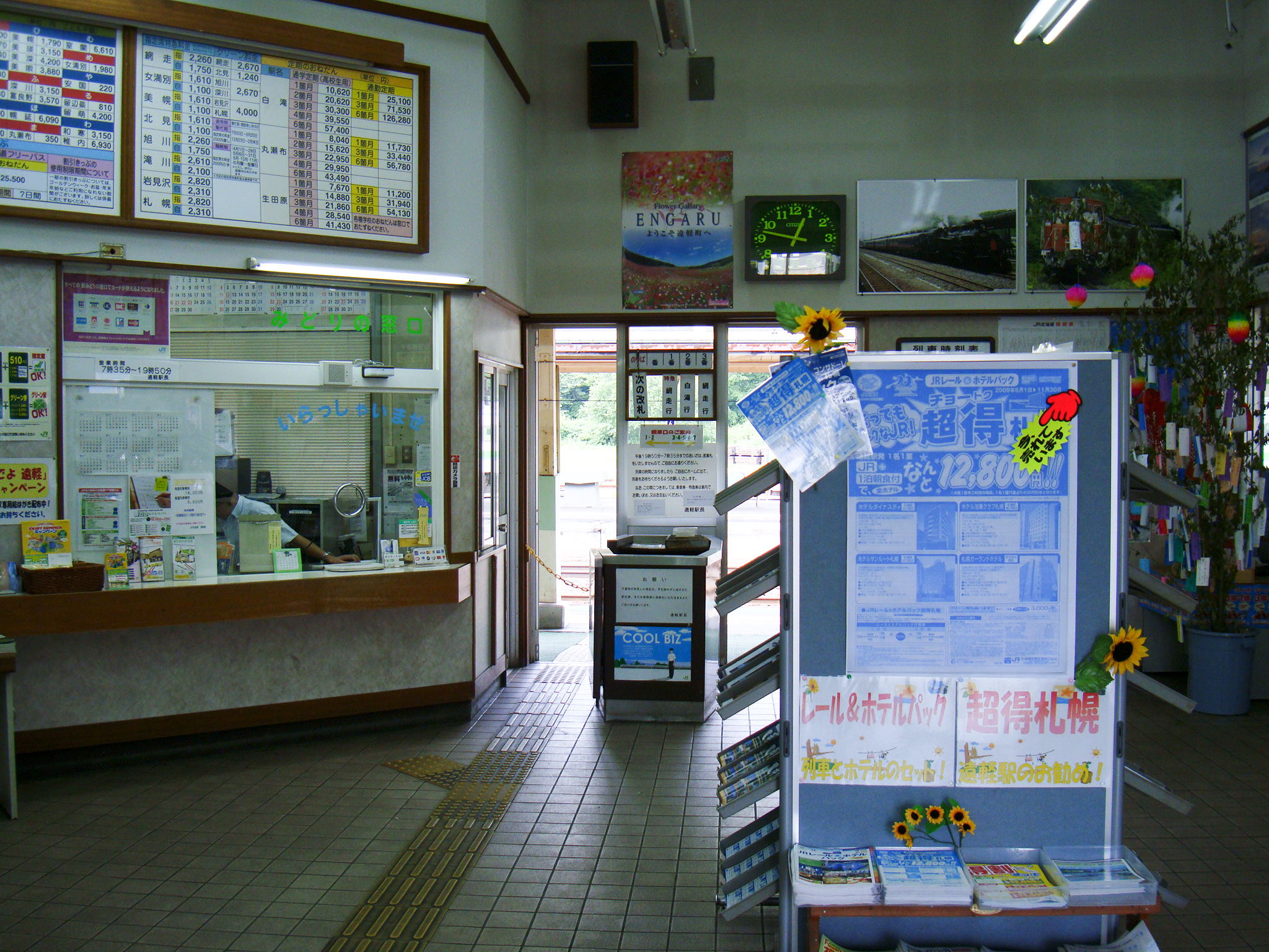 Engaru Station